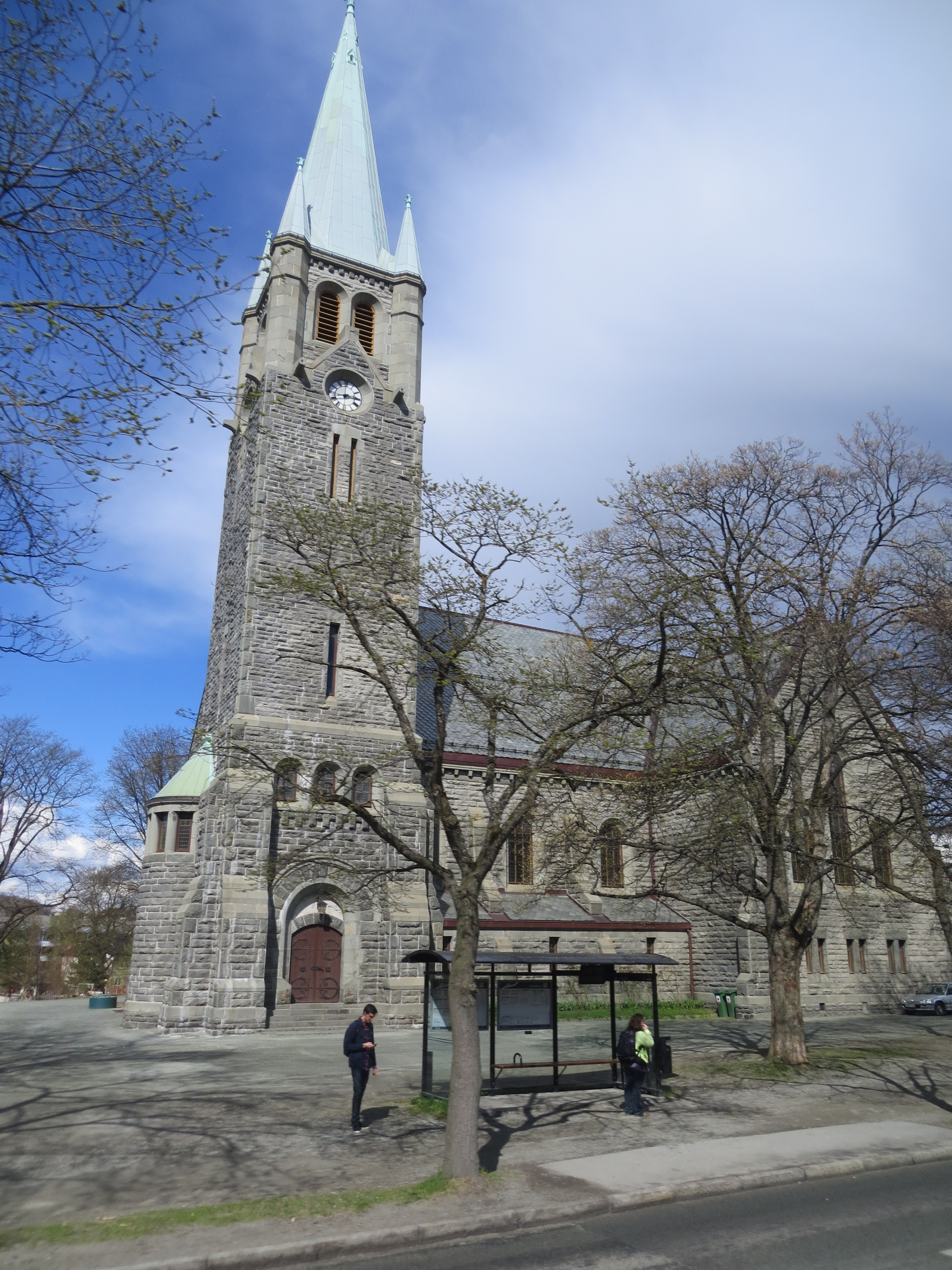 Image from Lademoen, eastern Trondheim - Norway